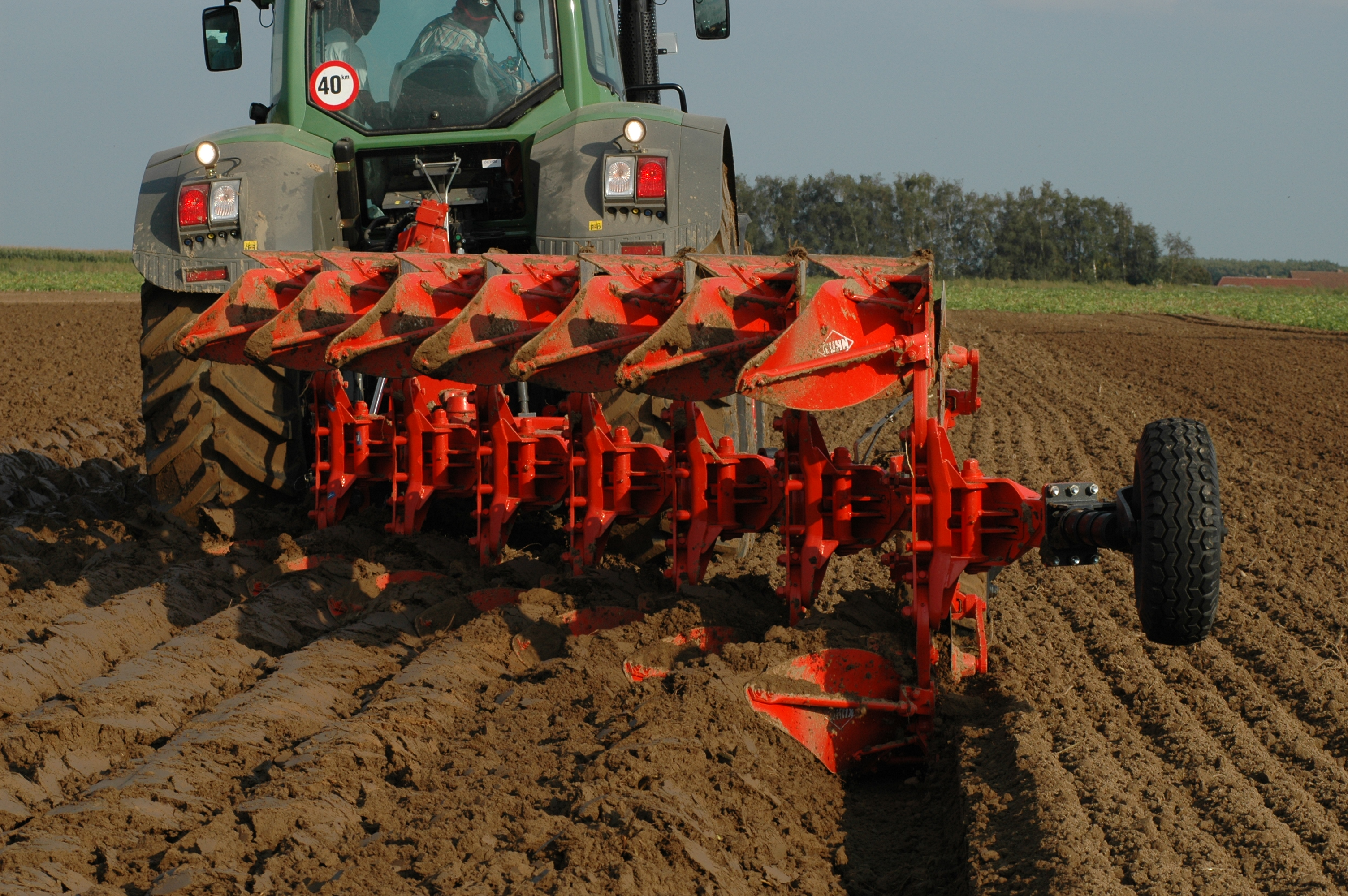 Kuhn plough at Werktuigendagen 2007